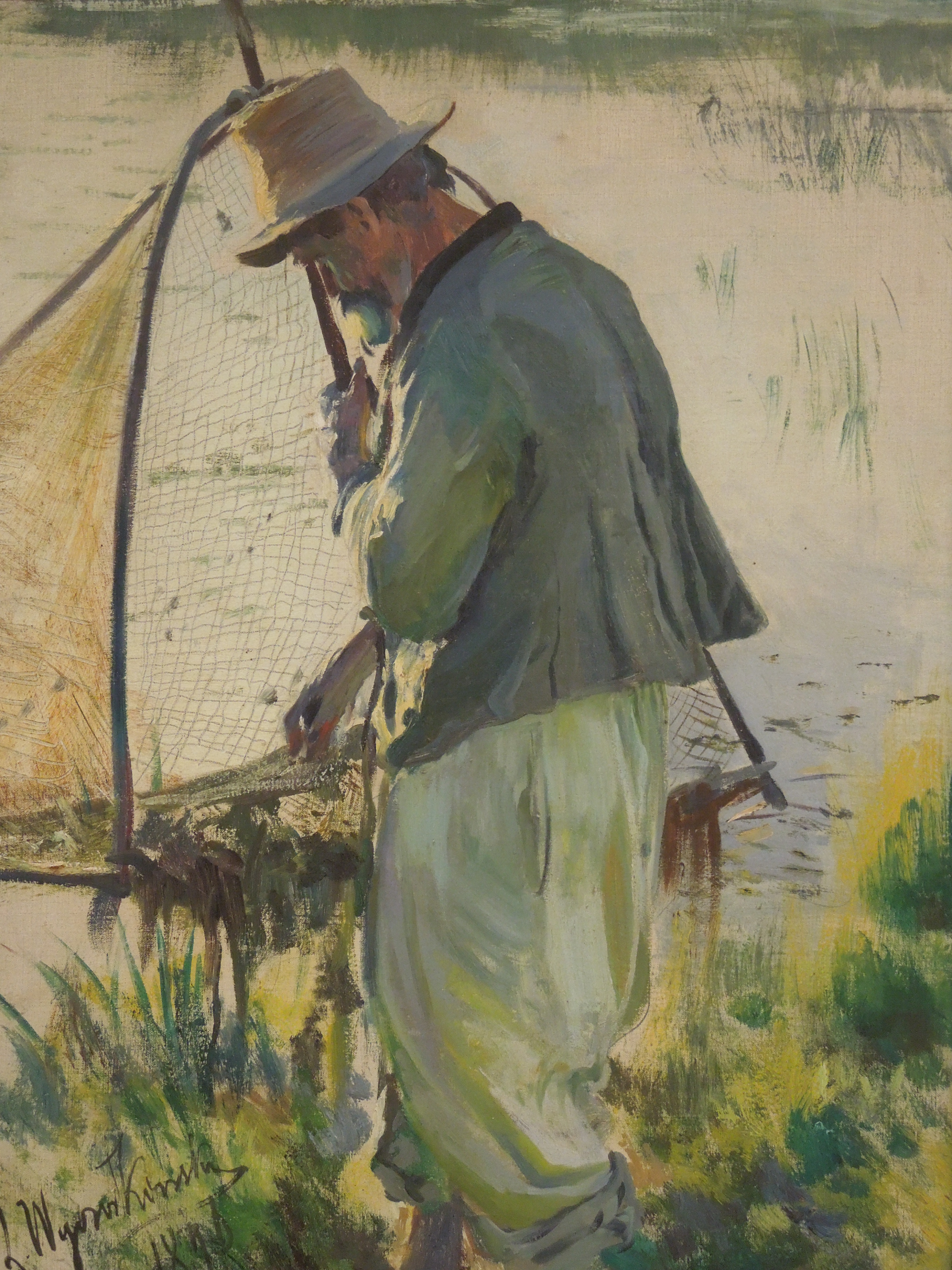 Leon Wyczółkowski - A Fisherman 1896